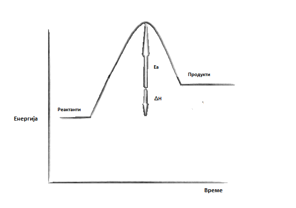 graphic for endothermic chemical reaction